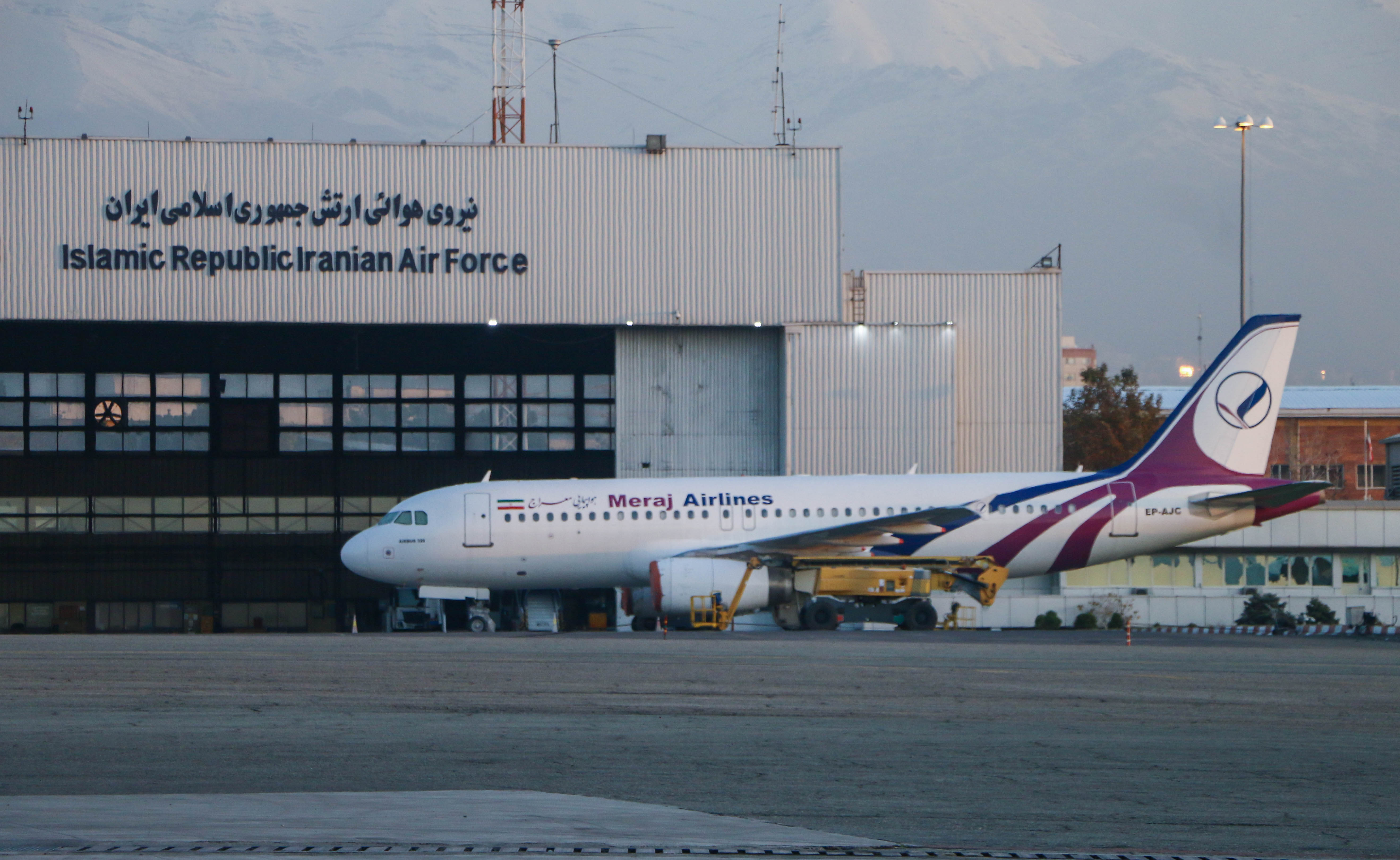 Airbus A320 - Meraj Airlines in Mehrabad Airport - 2018